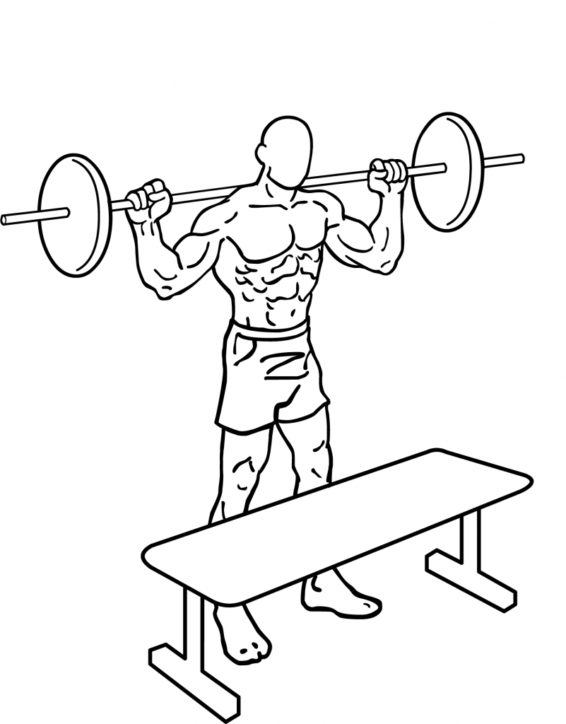 an exercise of hip and thigh